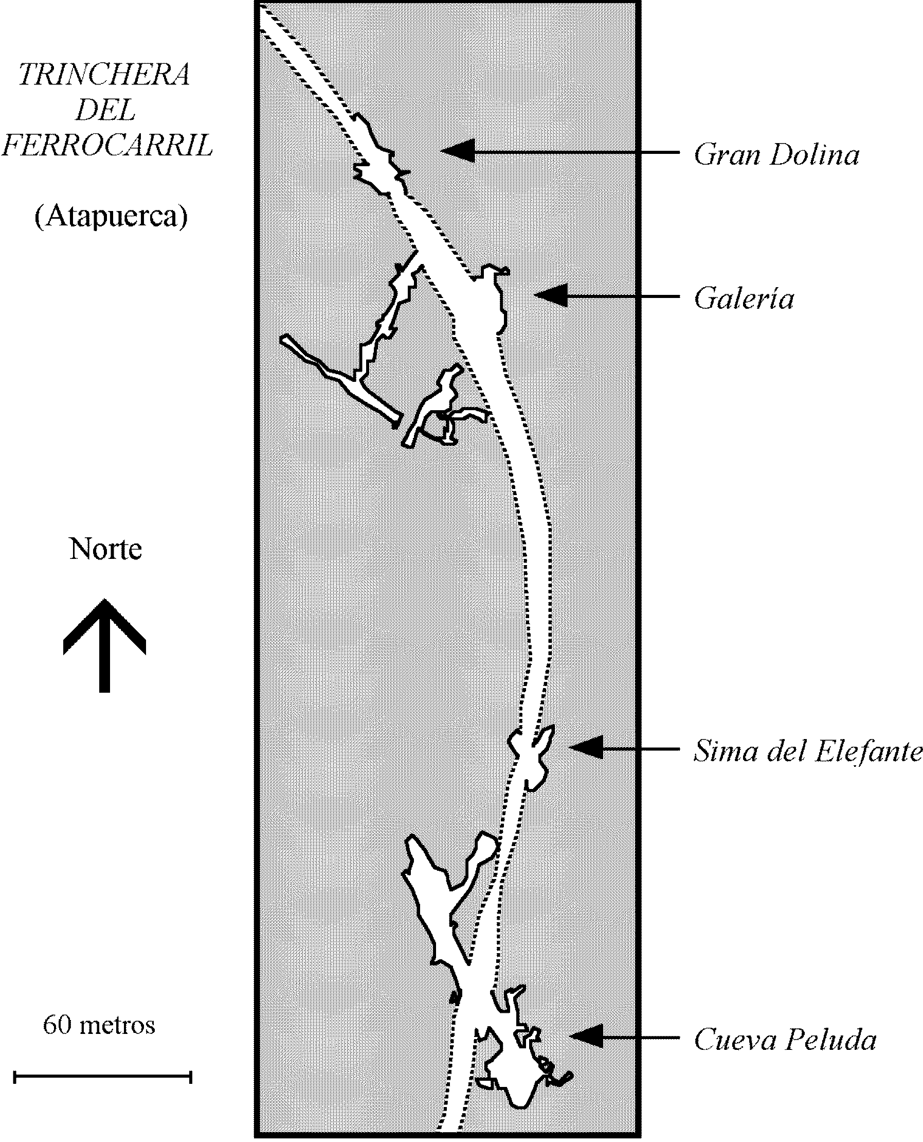 Plan of La Trinchera del Ferrocarril, in the archaeological site of Atapuerca (Spain)